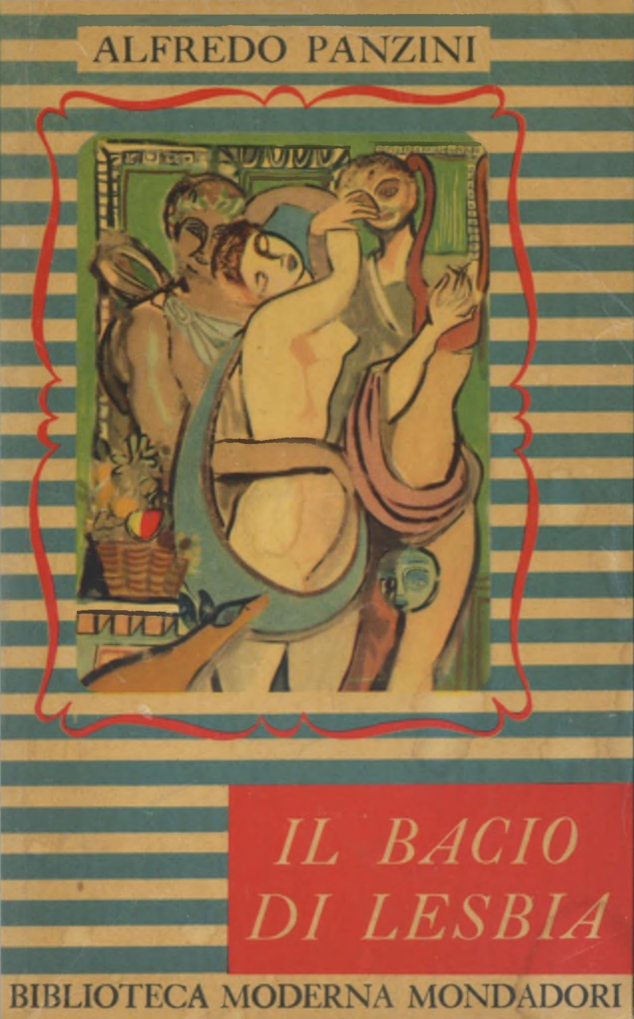 A novel by Alfredo Panzini